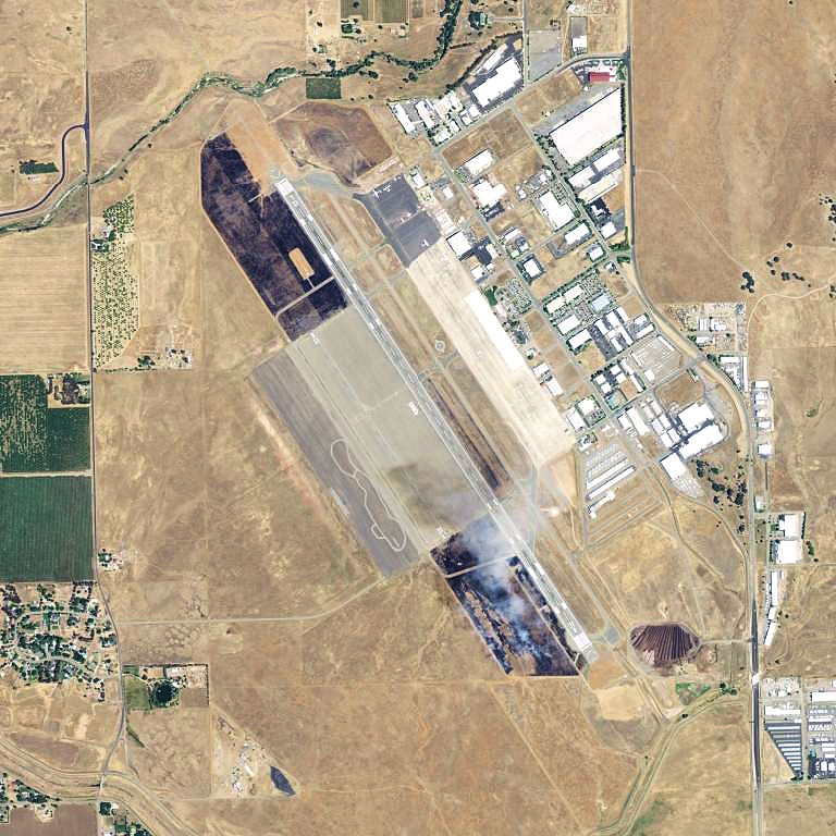 USGS digital orthophoto of Chico Municipal Airport in Chico, California, United States